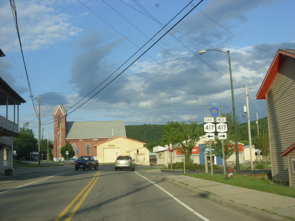 Steuben County Route 119 at its eastern terminus, New York State Route 417, in Addison, New York. The signage denoting END 119 formerly held the END NY 432 shield, when the present alignment was designated NY 432.